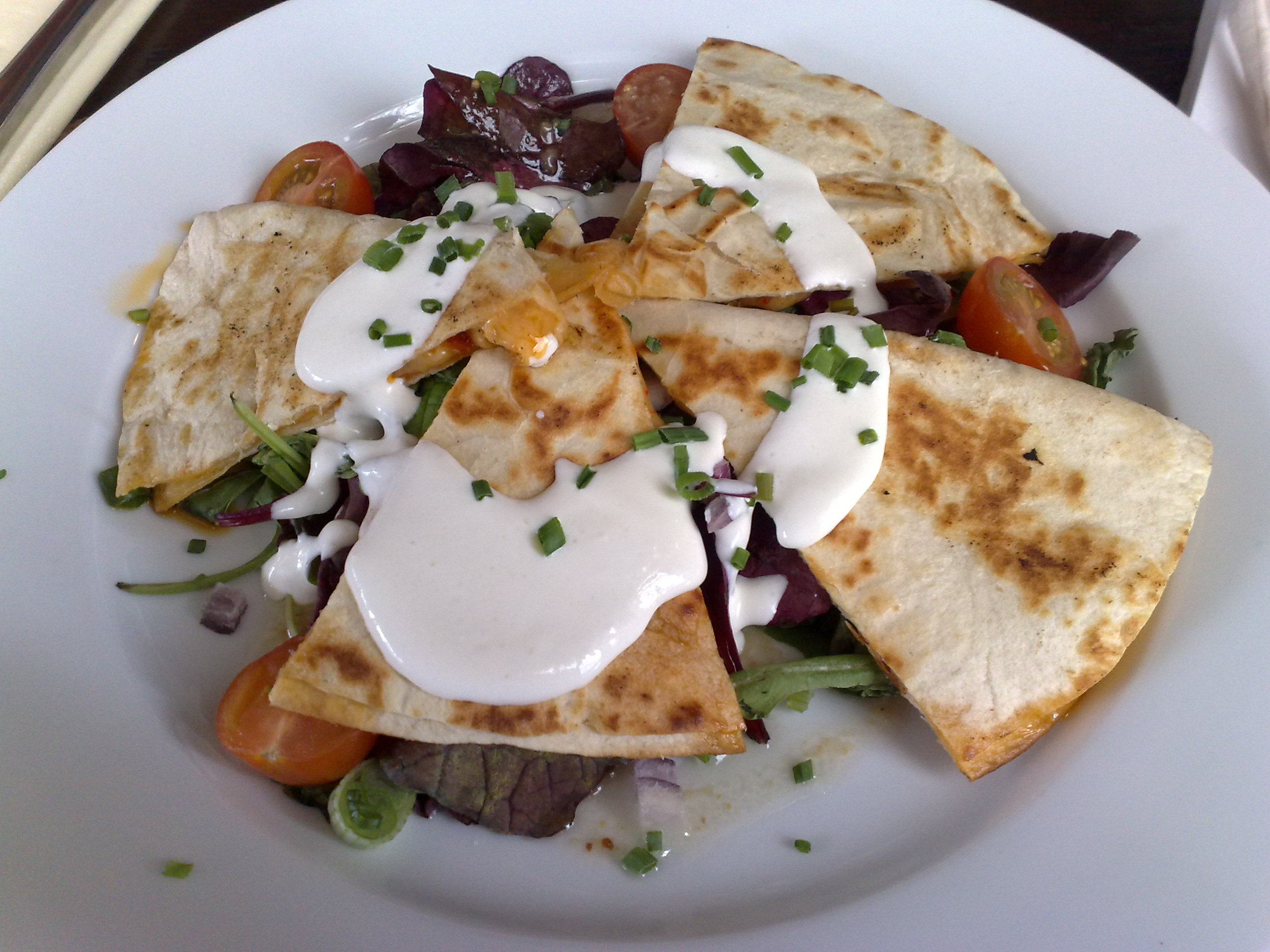 whole one. You can get halves too. Bridge Lounge and Dining Room on the Randomness Guide to London